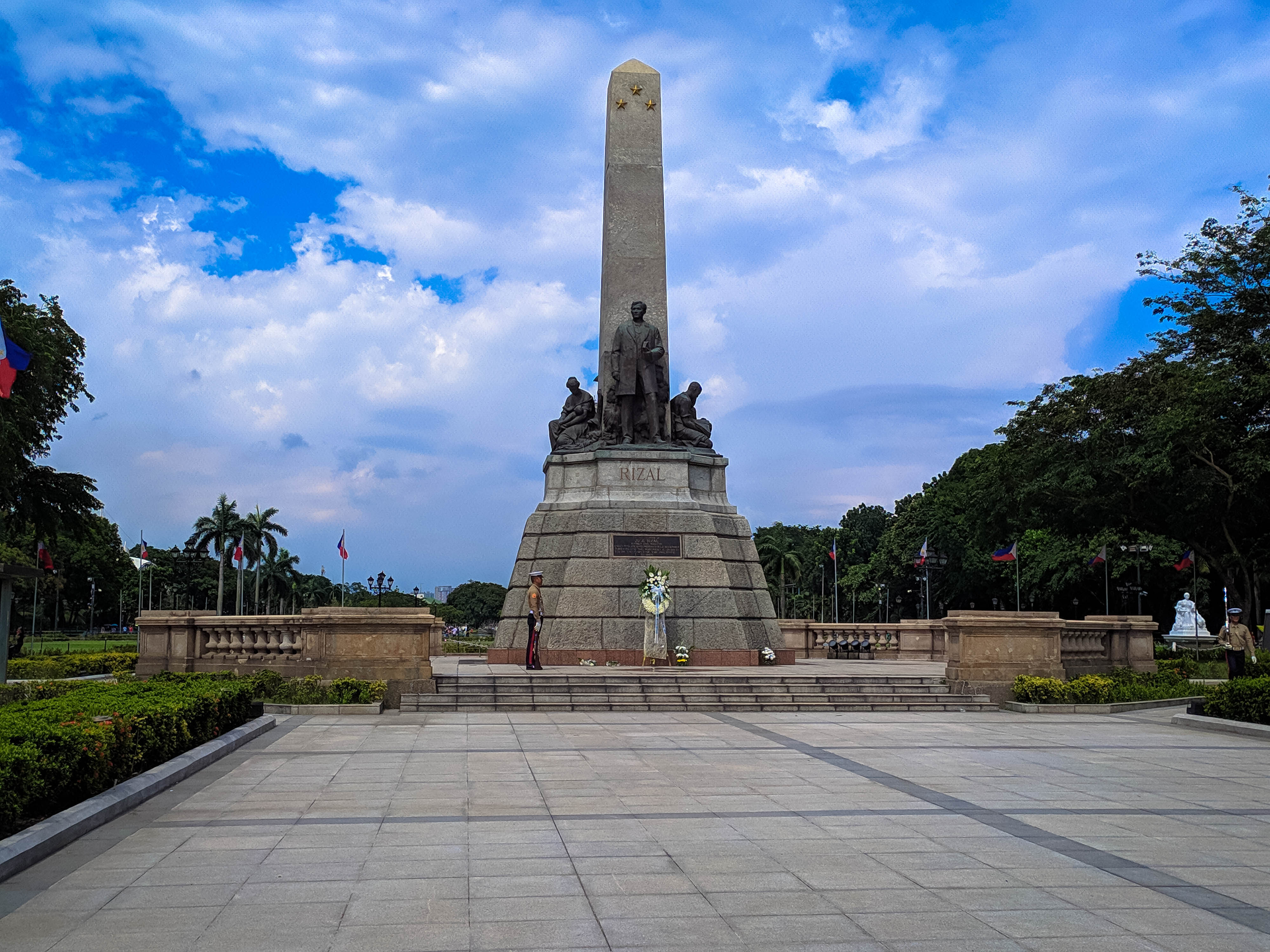 The famous monument of Dr. Jose Rizal